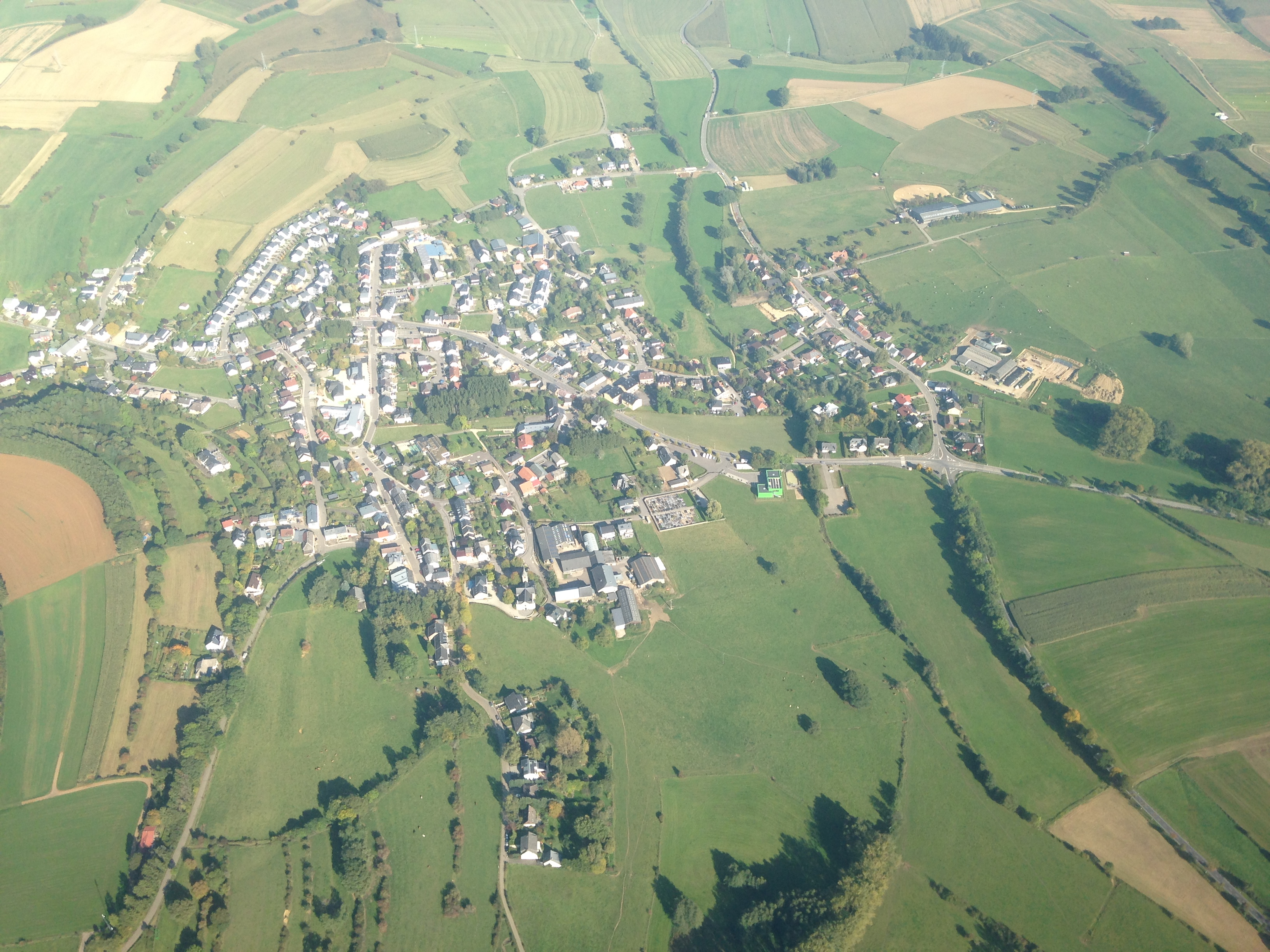 Aerial view of Garnich (Garnech) in Luxembourg.